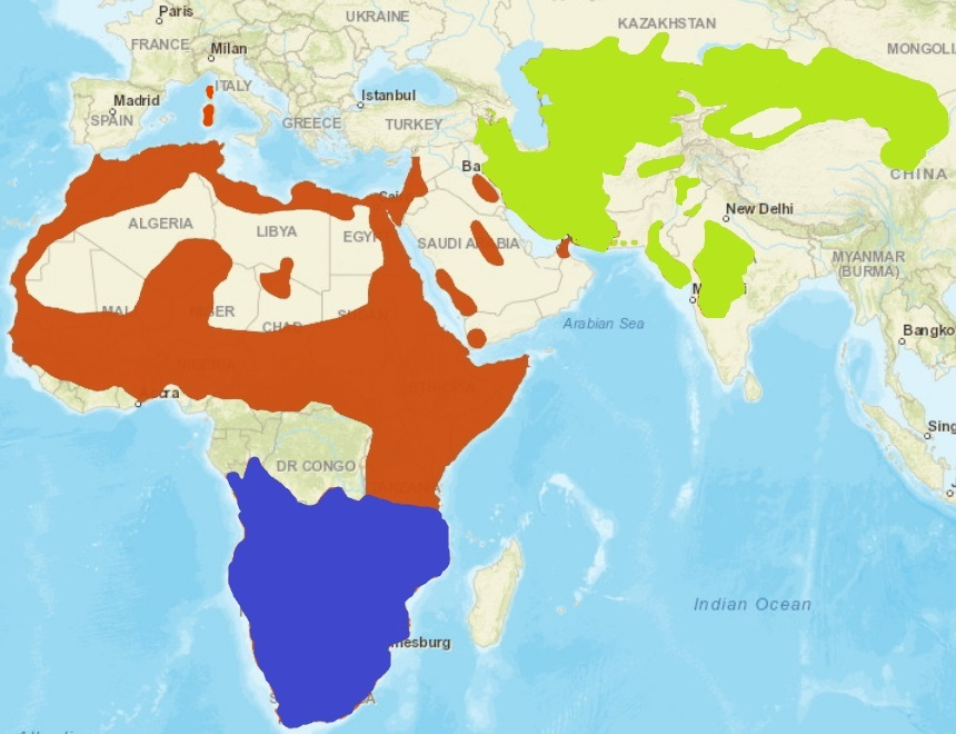 Felis lybica distribution. Brown - Felis lybica lybica, blue - Felis lybica cafra, pale green - Felis lybica ornata